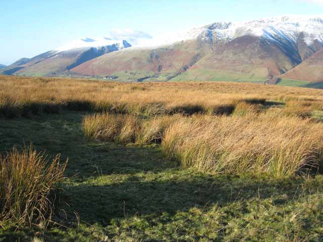 Threlkeld Common A very damp stretch of moorland. Stunning views of Skiddaw (to the left) and Blencathra under snow.